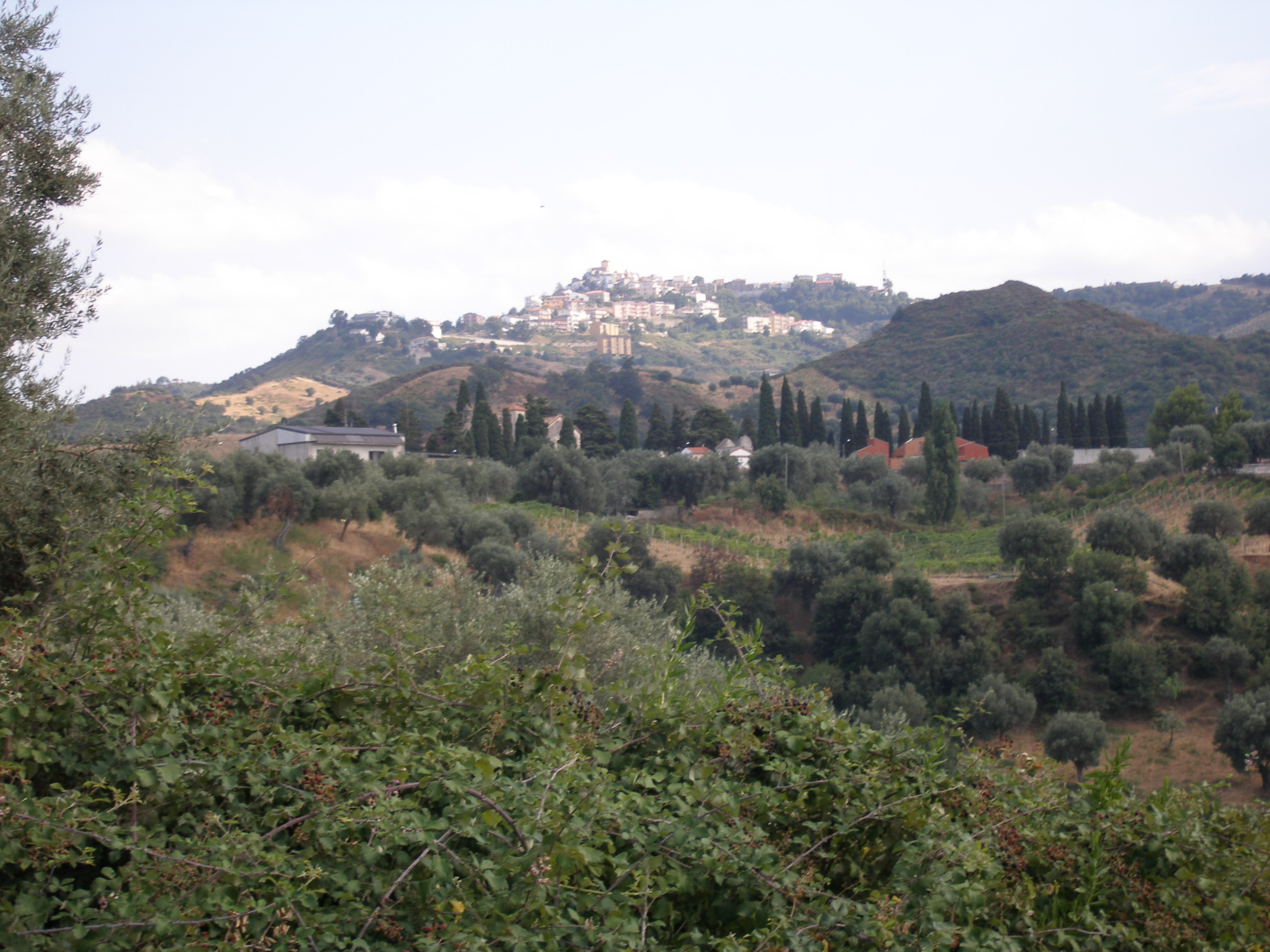 Terraveccia, photographed from Cariati (sopra).